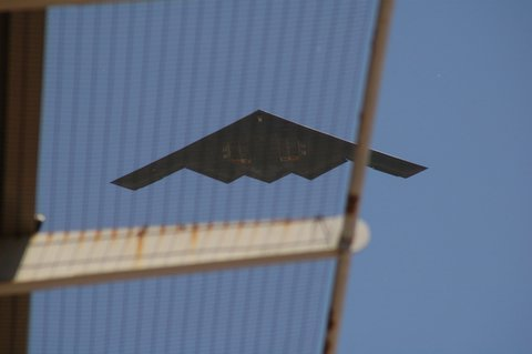 Stealth bomber flew overhead during the national anthem at the 89th Indy 500. It was surprisingly quiet for such a huge plane. I know, I know .... stealth. I get it.Indianapolis 500